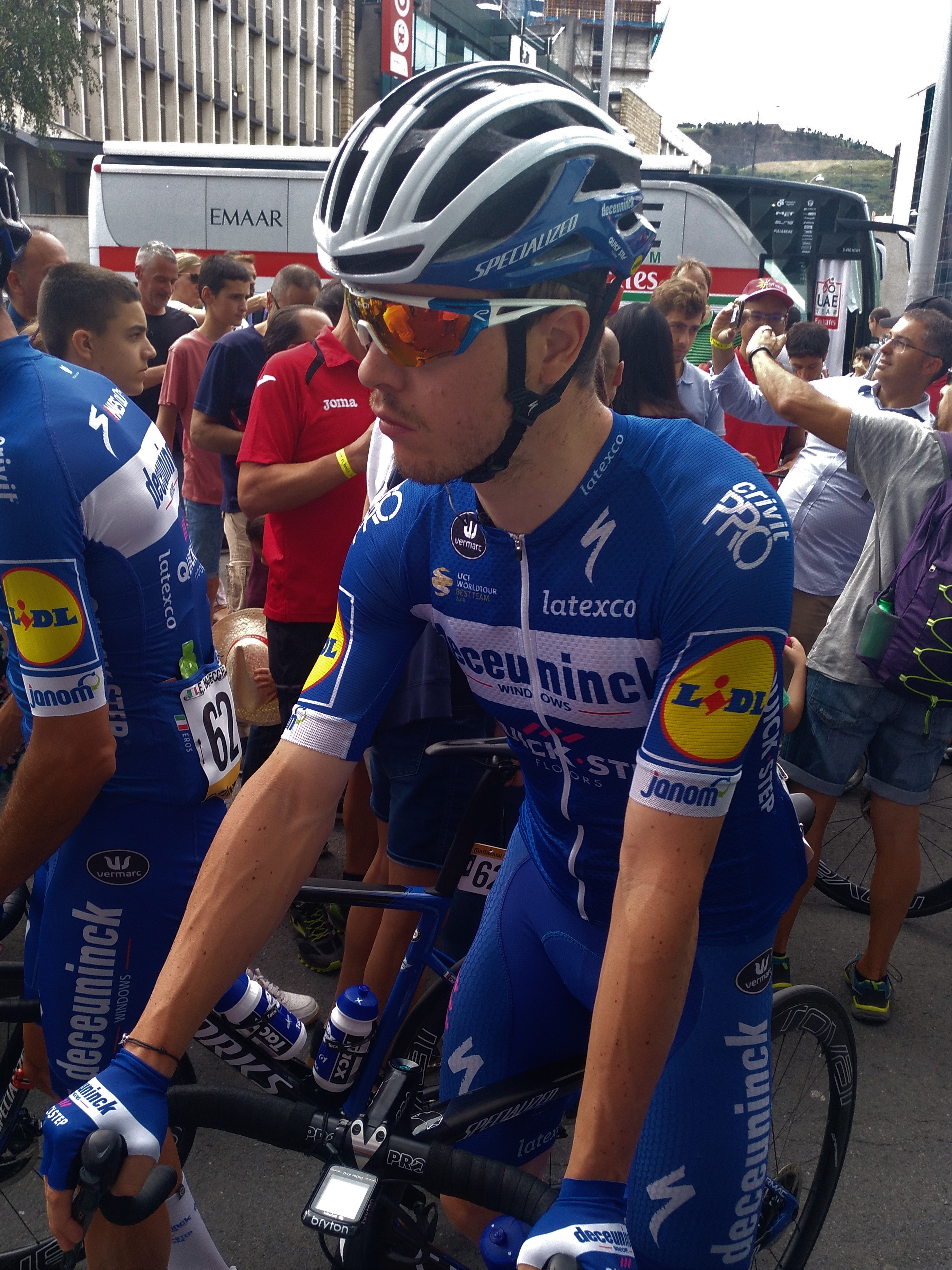 Rémi Cavagna at the 2019 Vuelta a España